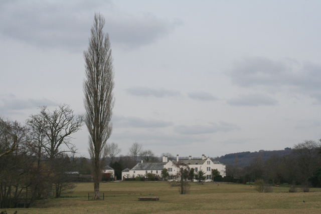 Broadhembury: The Grange. Looking east from a public footpath which runs to Colliton Bridge